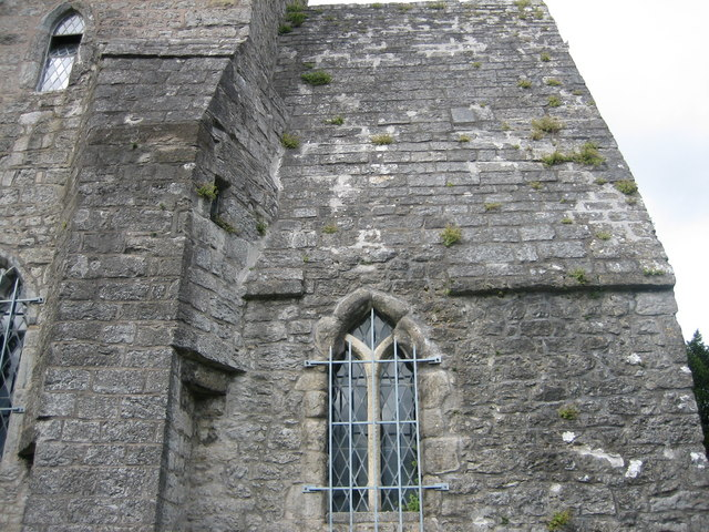 Stone Roof on St. Doolagh's Church A view of the stone roof on St. Doolagh's Church. It is the oldest stone-roofed church still in use for public worship in Ireland. OSI maps spell as St. Doolagh while the majority of local usage is St. Doulagh